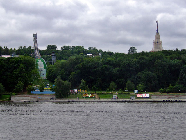 Sparrow Hills